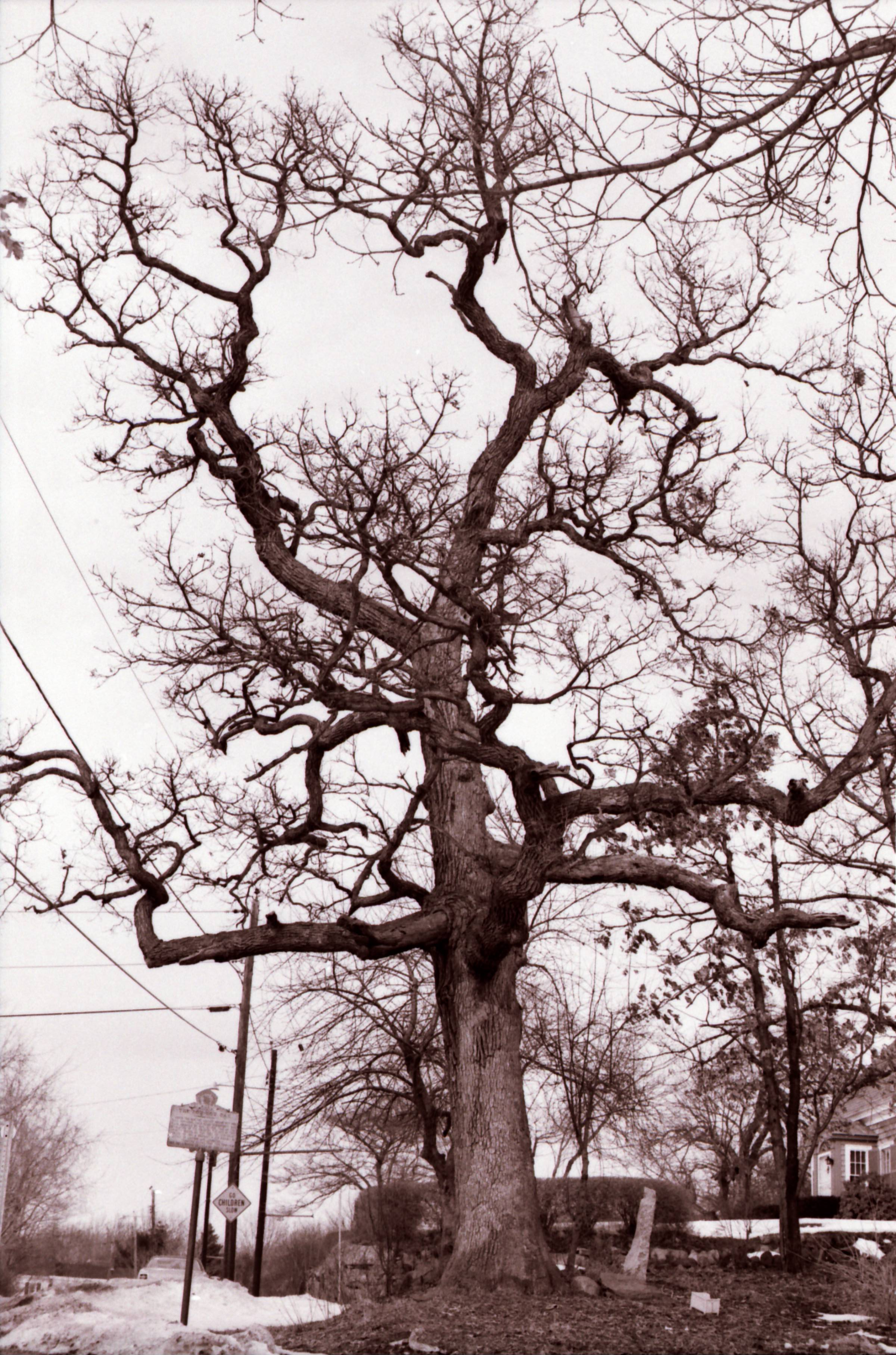 The MightyPowWowOakOnClarkRoadInBelvidereJanuary1974PhotoByGeorgeKoumantzelis7